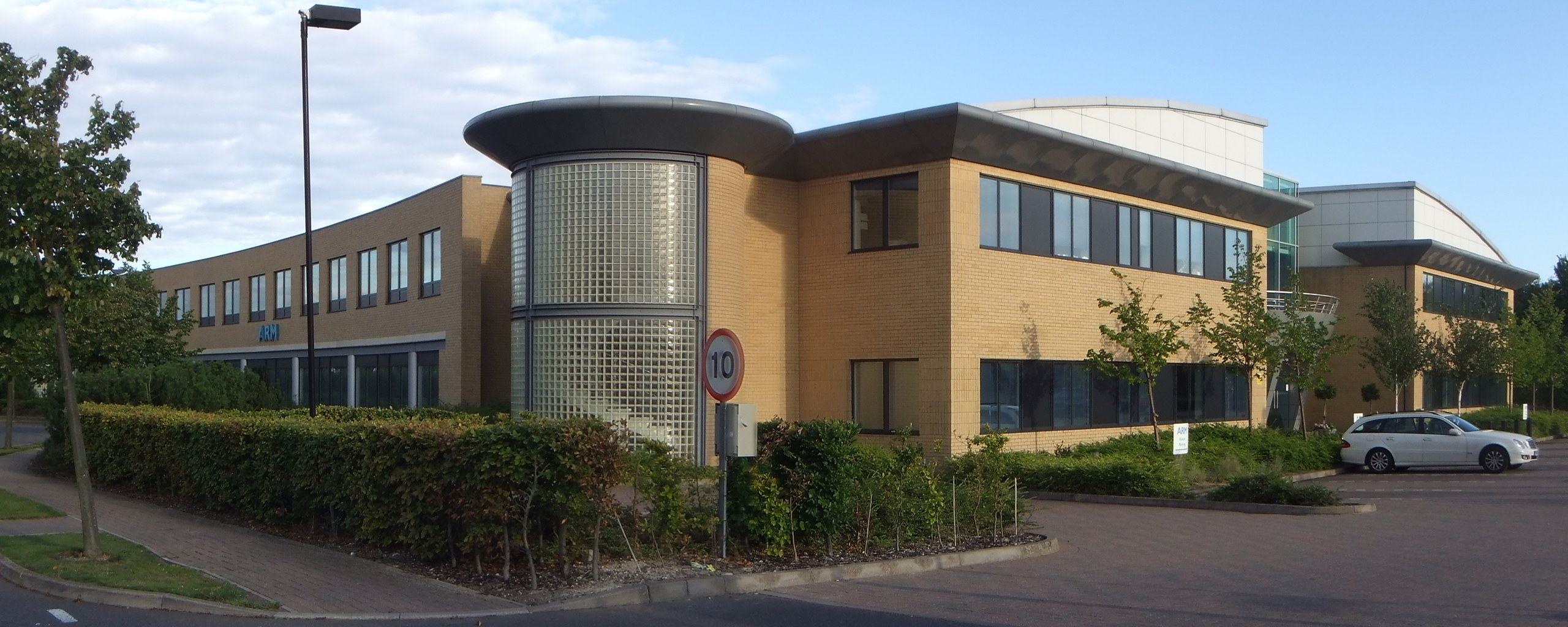 Stitched panorama of building ARM I by architects Barber - Casanovas - Ruffles at Peterhouse Technology Park, Cambridge.